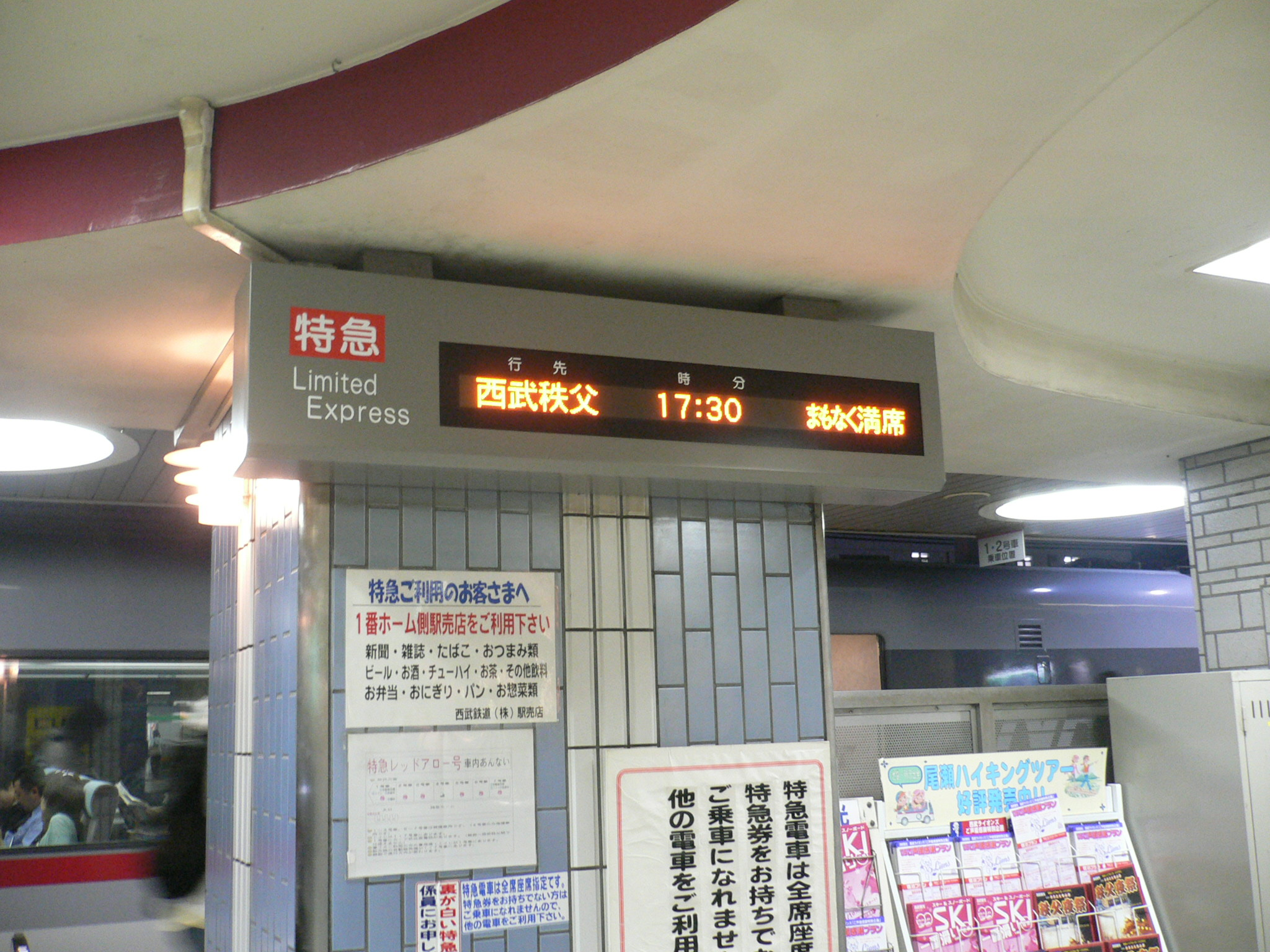 Ikebukuro Station (Ikebukuro Station), Toshima W, Tokyō M.